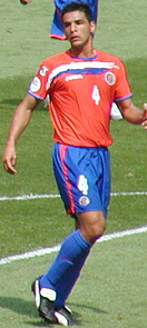 Michael Umaña. Image cropped from original at flickr.